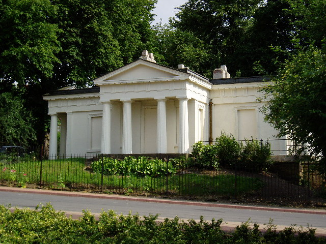 The Lodge, Mansfield Rd, Nottingham. Built 1857 as the Lodge to the racecourse, now stands at the entrance to the Forest recreation Ground. Mentioned in Pevsner.